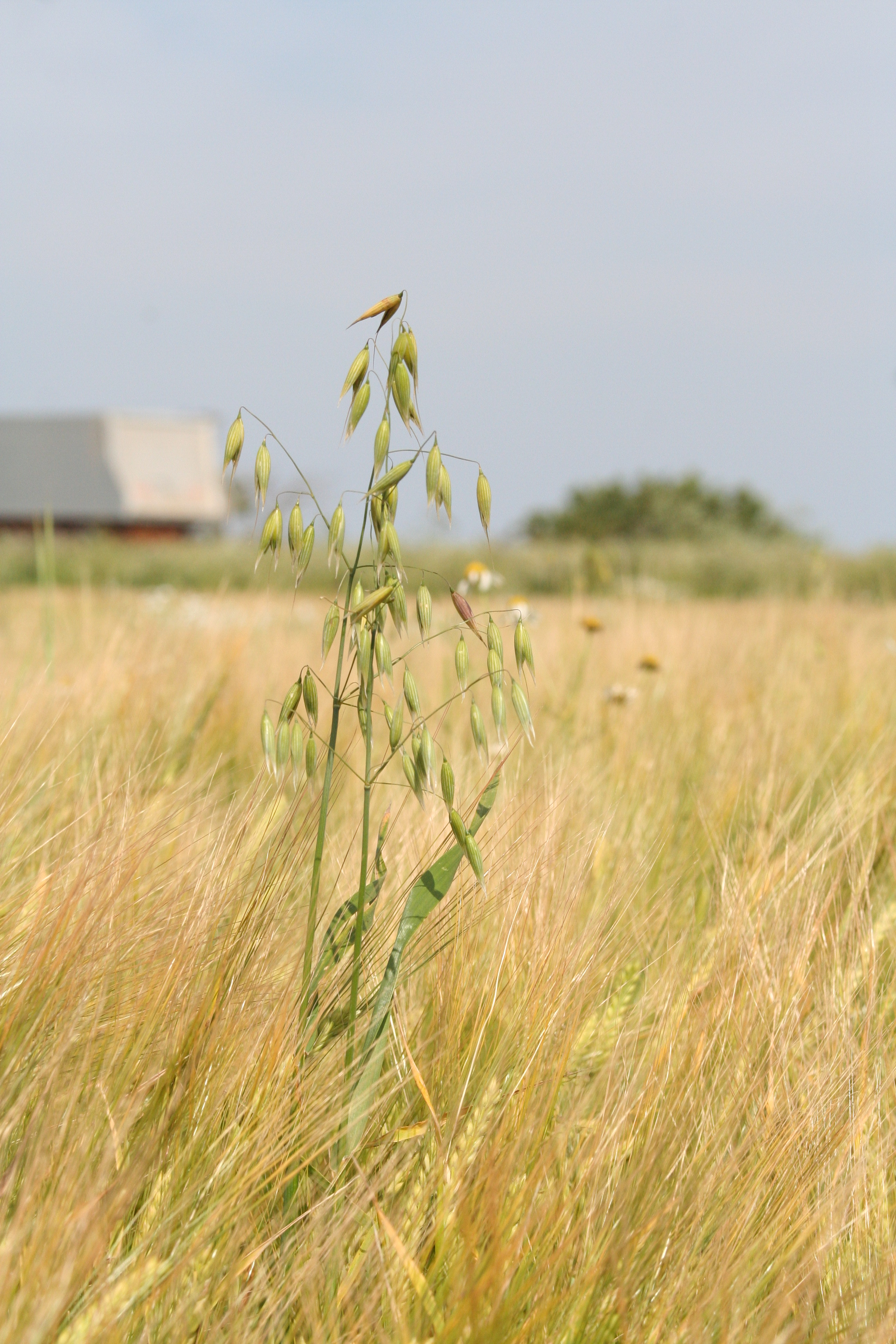 Avena fatua L